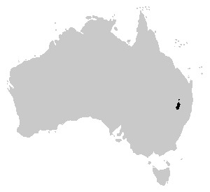 Range of the Peppered Tree Frog (Litoria piperata) in black on the Australian continent.